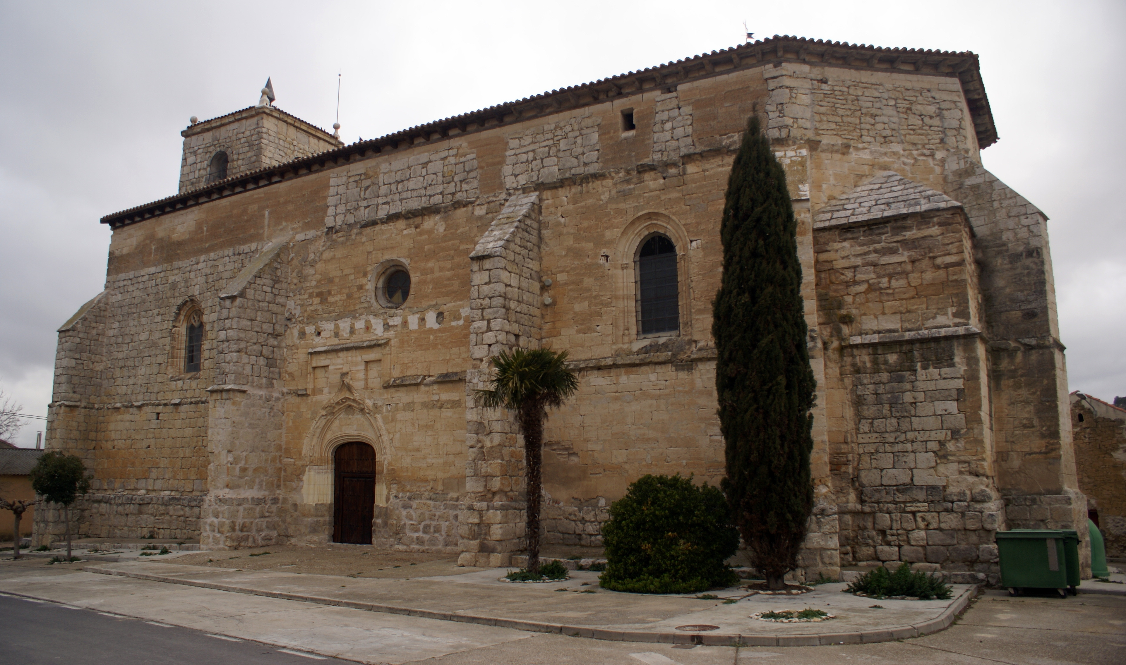 Church of San Martín de Valvení, Valladolid, Spain.